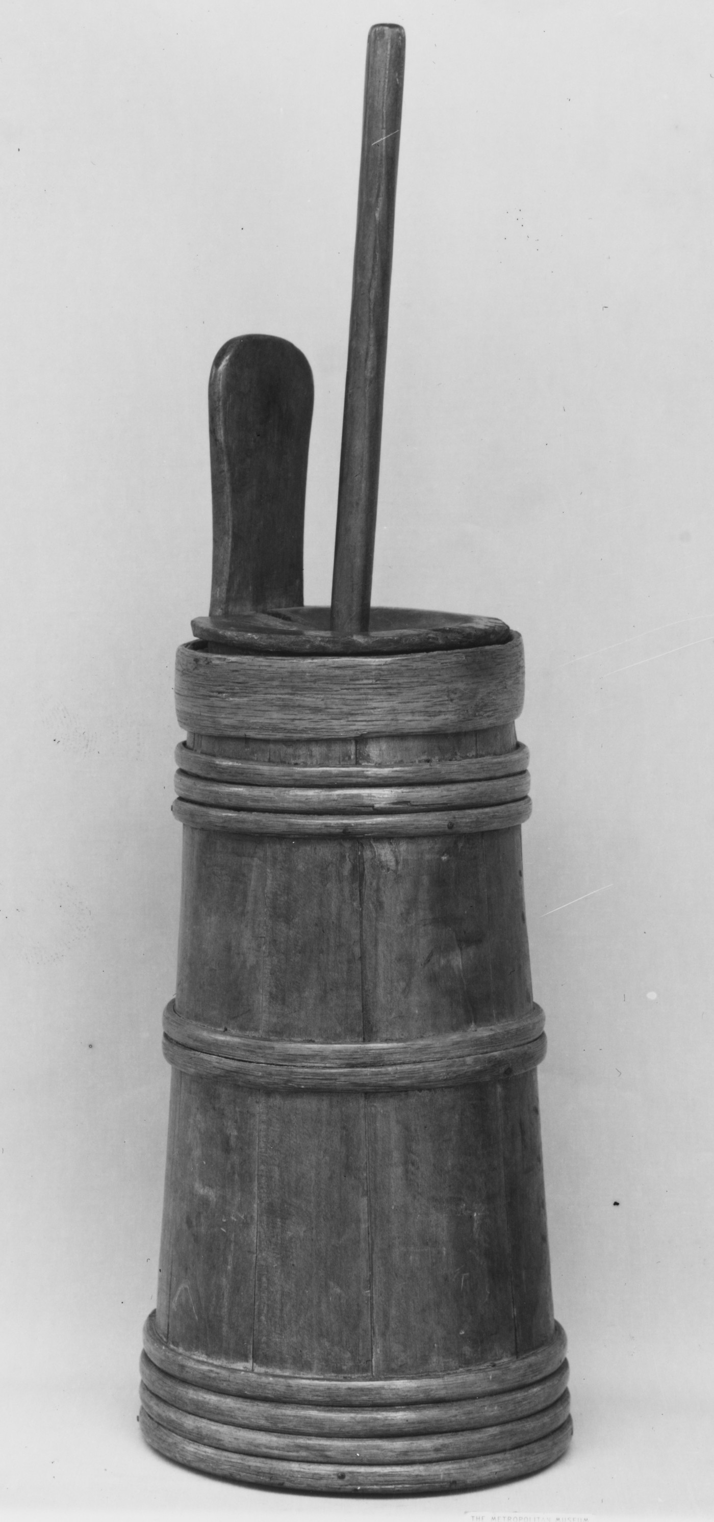 Churn; Natural Substances